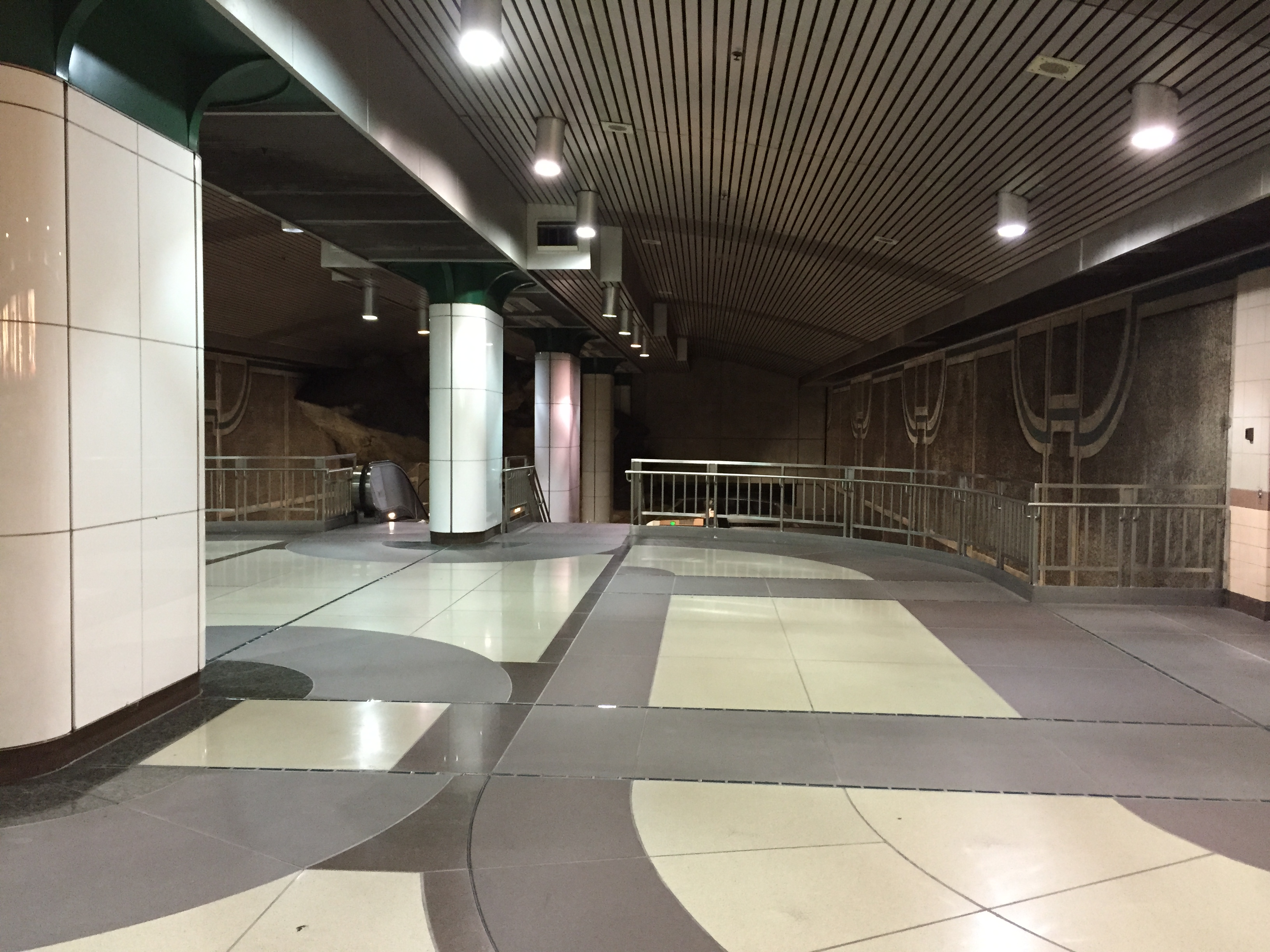 Mezzanine of the Vermont/Beverly LACMTA station in 2016